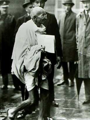 Gandhi at the entrance of the Saint-James Palace, in London, in 1931.